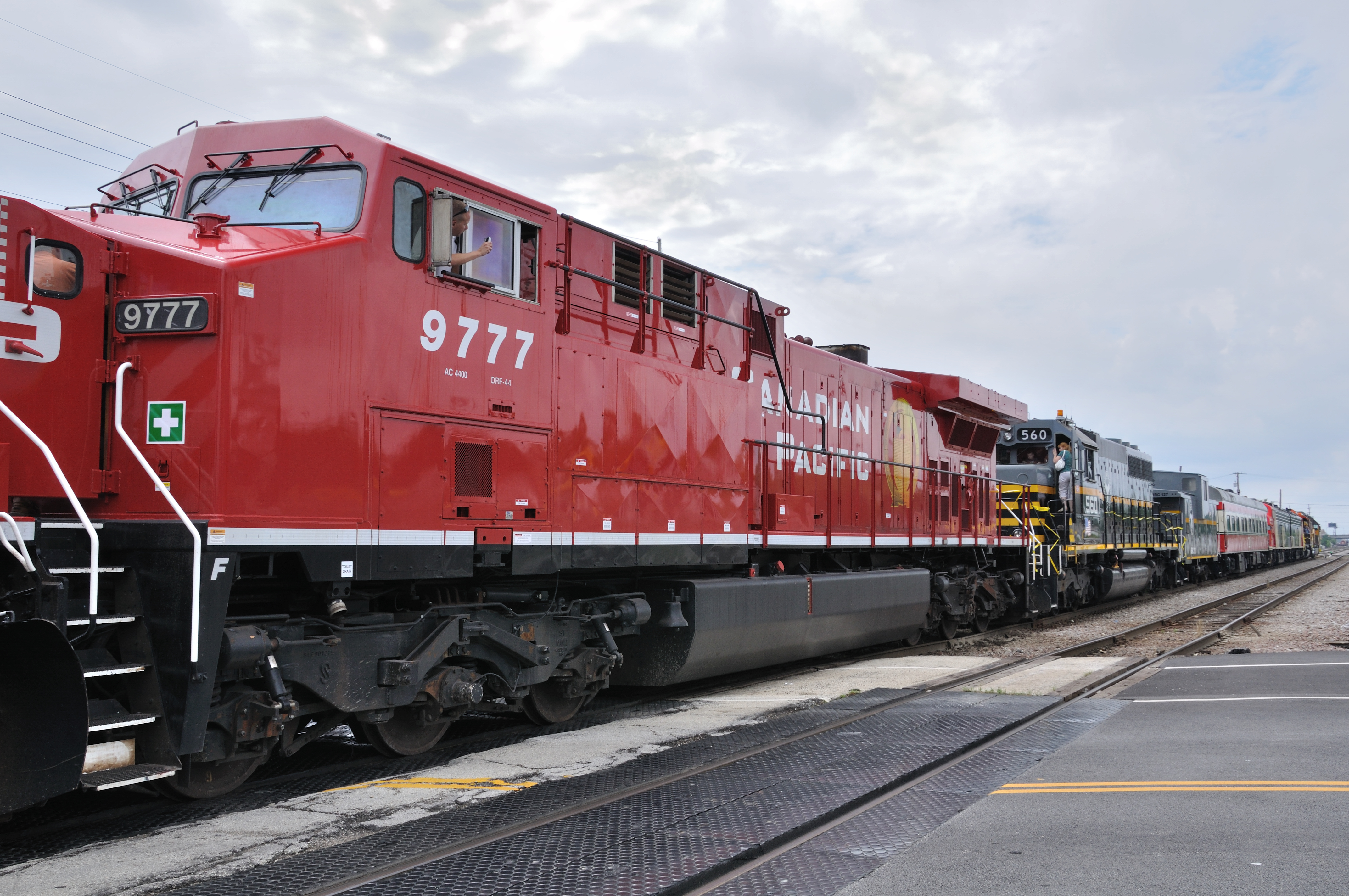 Canadian Pacific railroad's locomotive no. 9777 (a General Electric AC4400CW-series engine), sits between BRC 560 and METX 611 (not in frame) at Franklin Park's 2010 Railroad Daze.